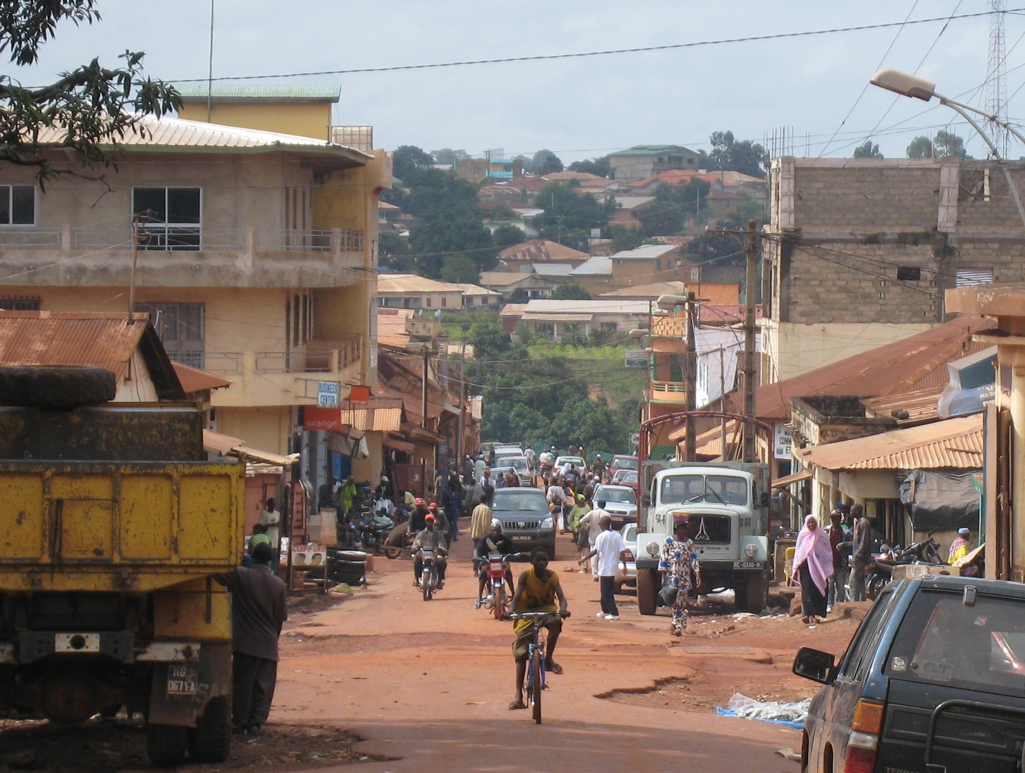 Center of LABE